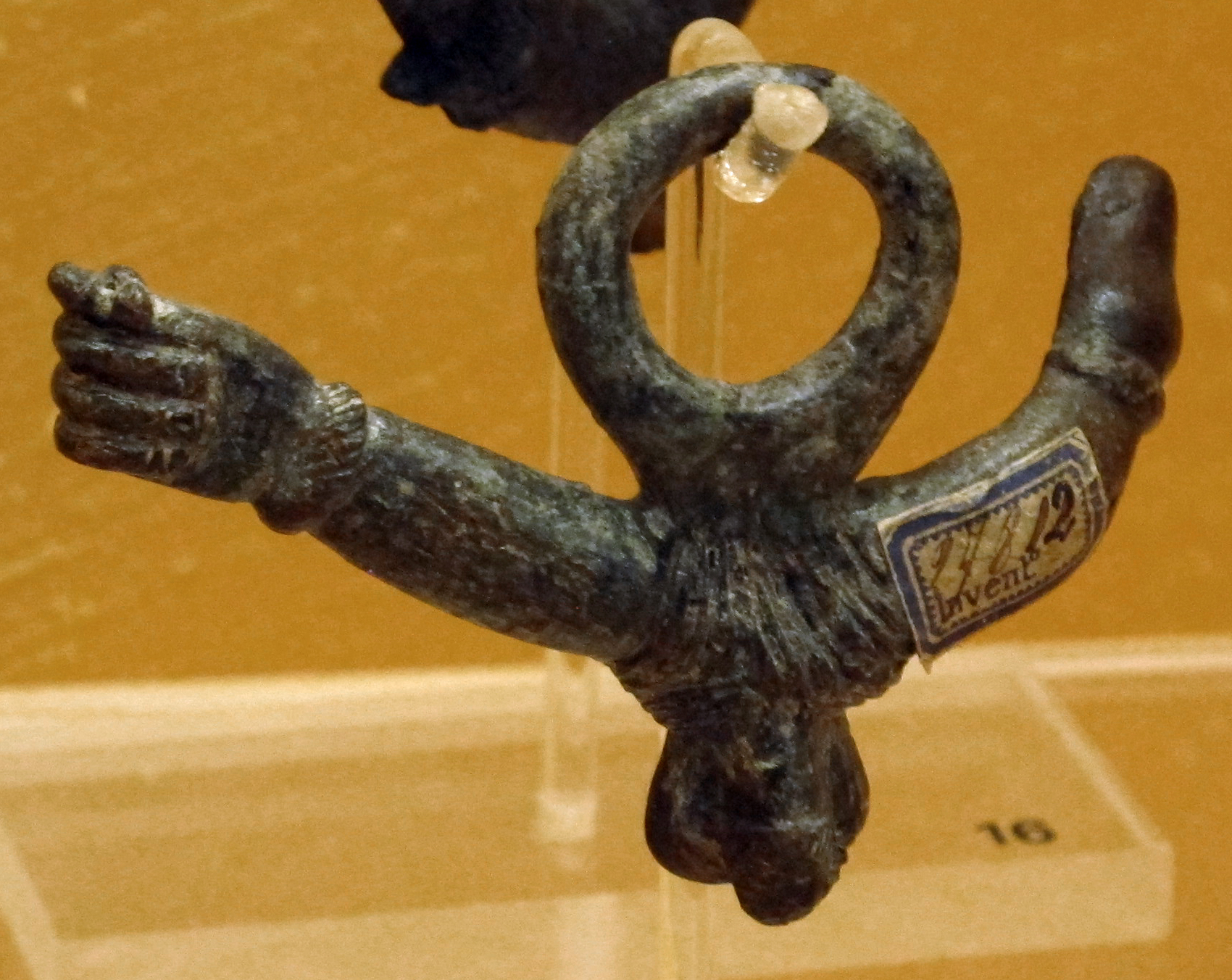 Secret Cabinet in the Museo Archeologico (Naples)